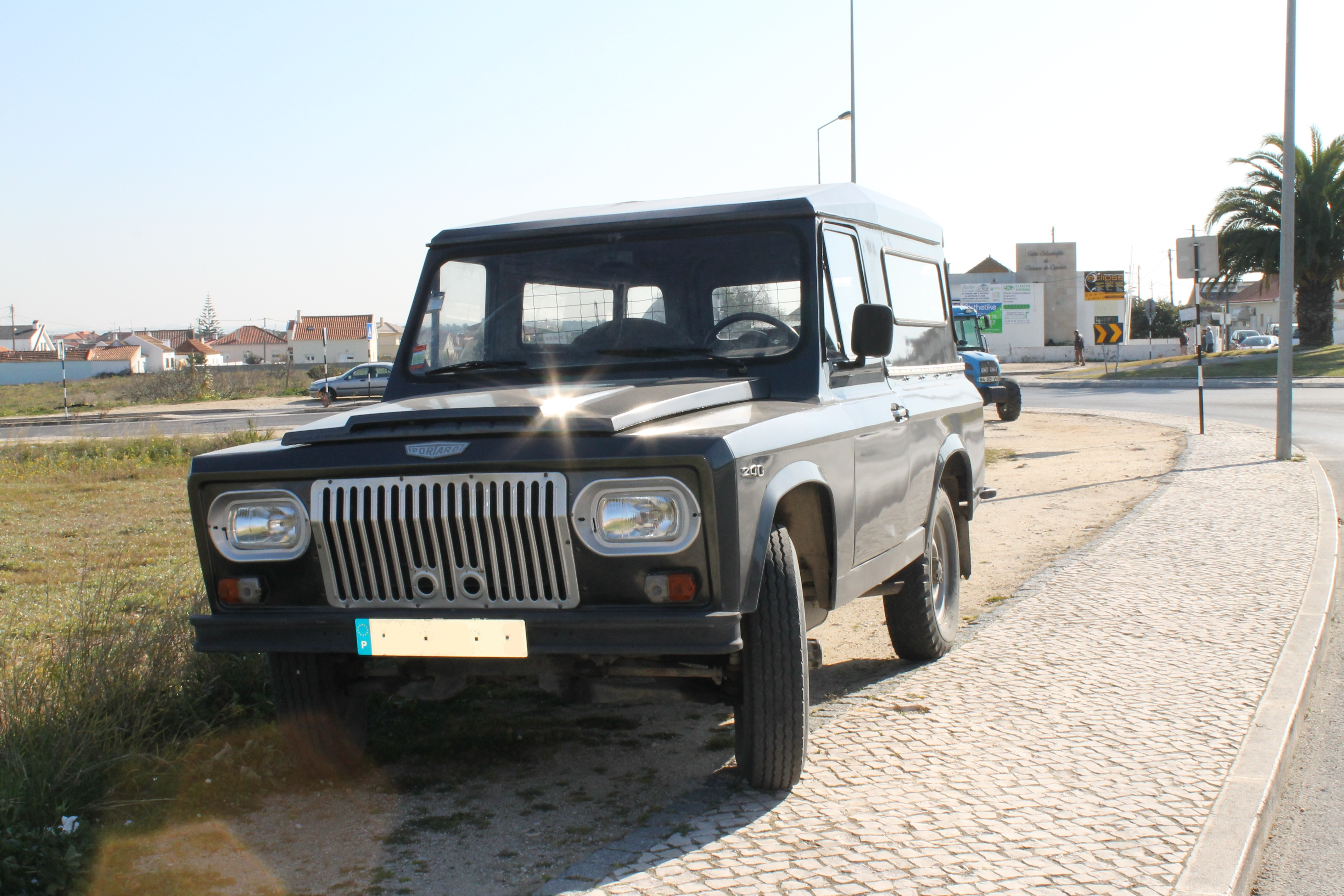 Photo of a Portaro 240